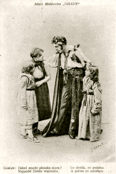 Postcard (published by Salon Malarzy Polskich - The Polish Painters Association) with a photography by Józef Sebald. A scene from Dziady (Teatr Miejski in Kraków, 31.10.1901)